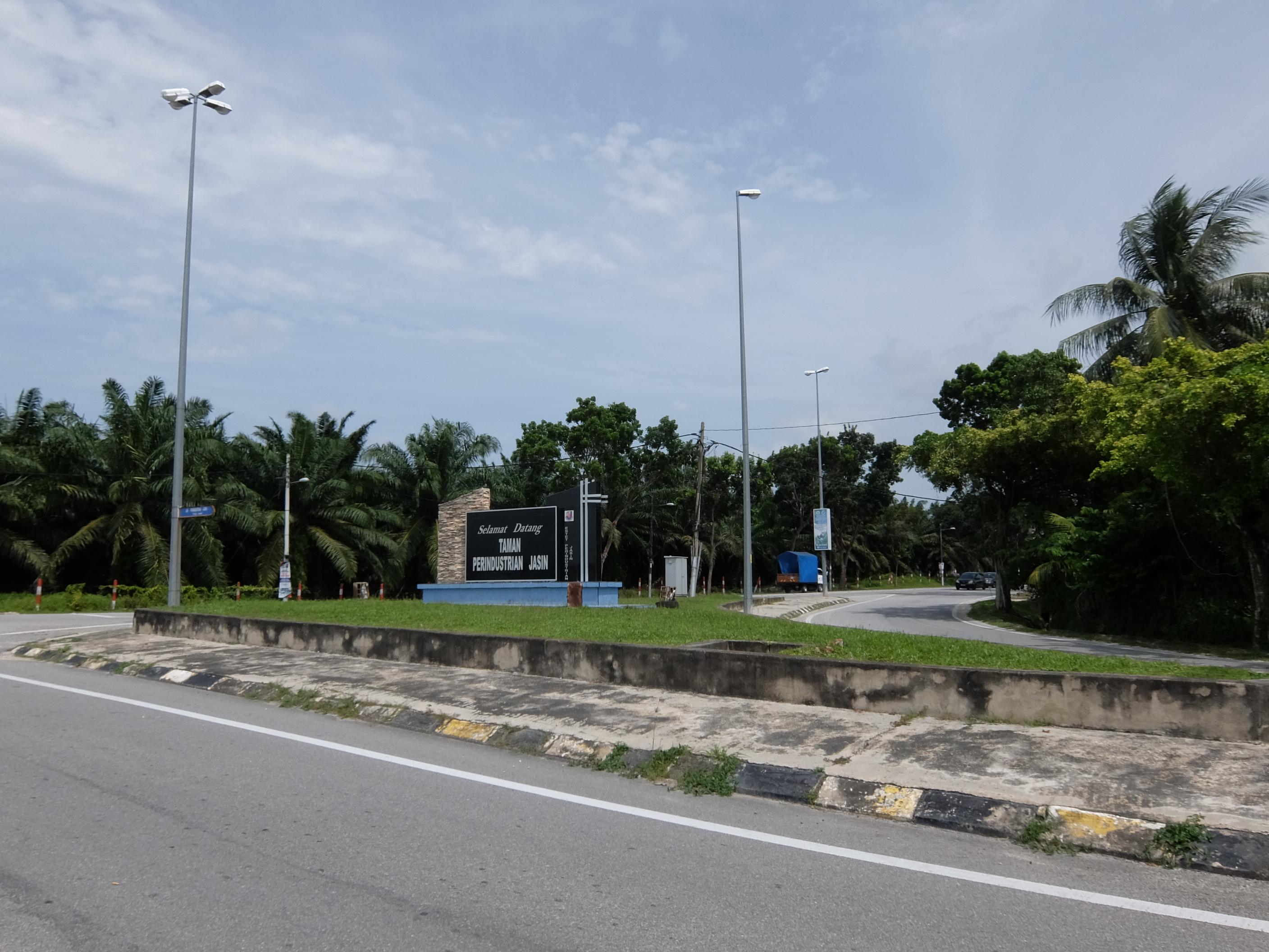 Jasin Industrial Park, Jasin, Melaka, Malaysia